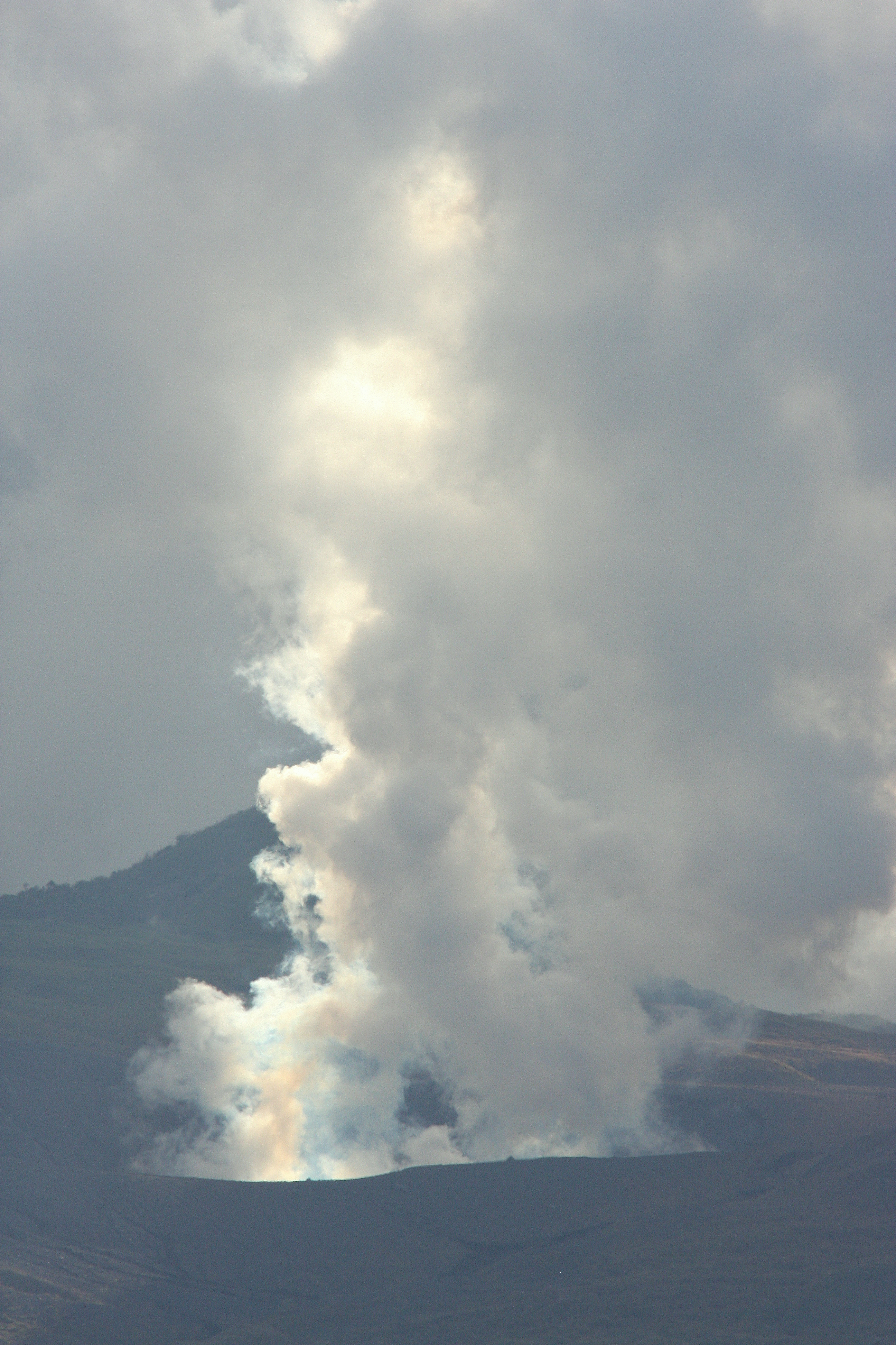 Tompaluan crater